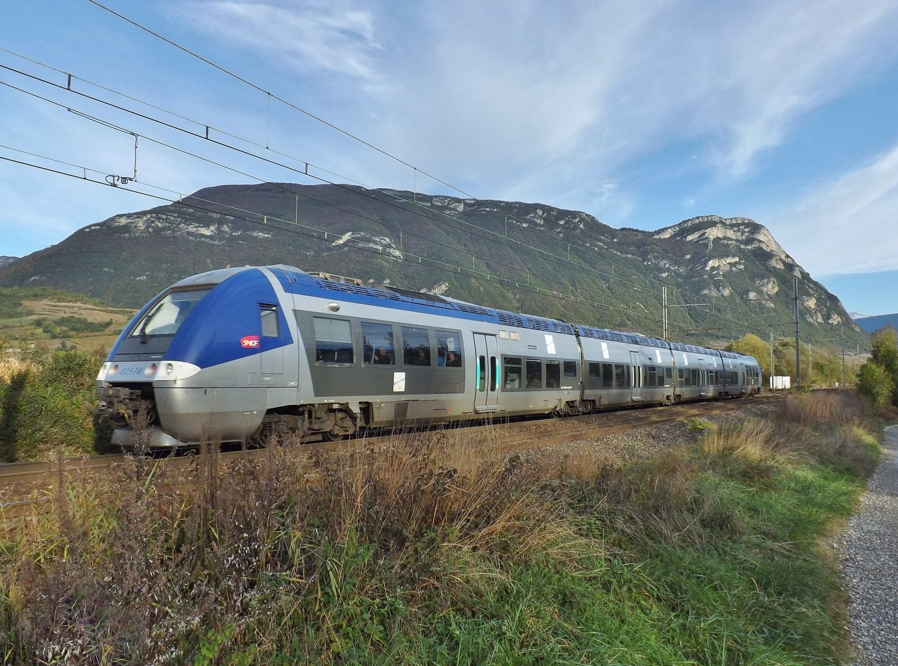 Sight of a French SNCF Class B 82500 coming from Chambéry and bound for Valence, passing in the cluse de Chambéry valley with the Bauges mountains at the background, in Savoie.